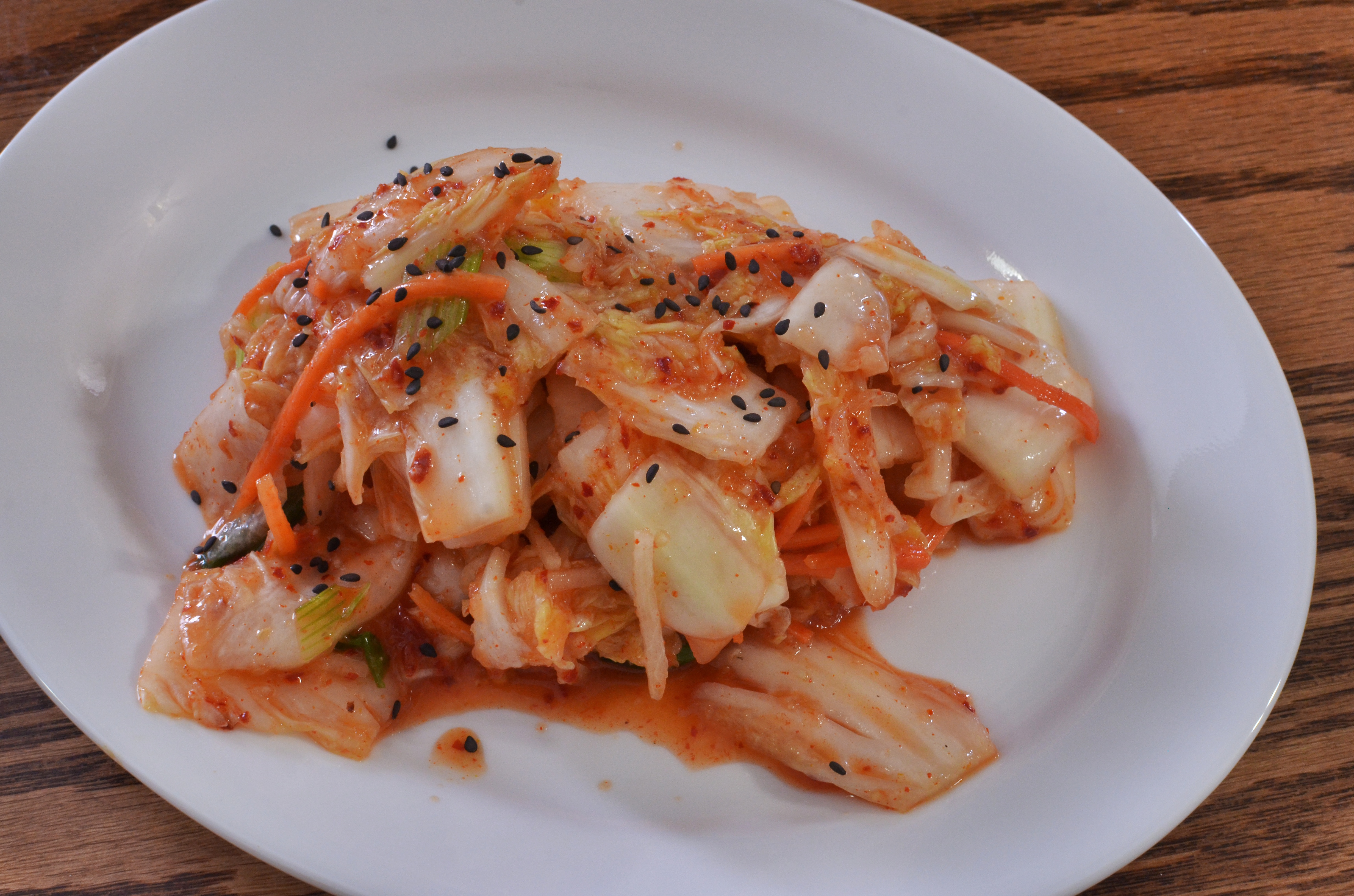 recipe and more